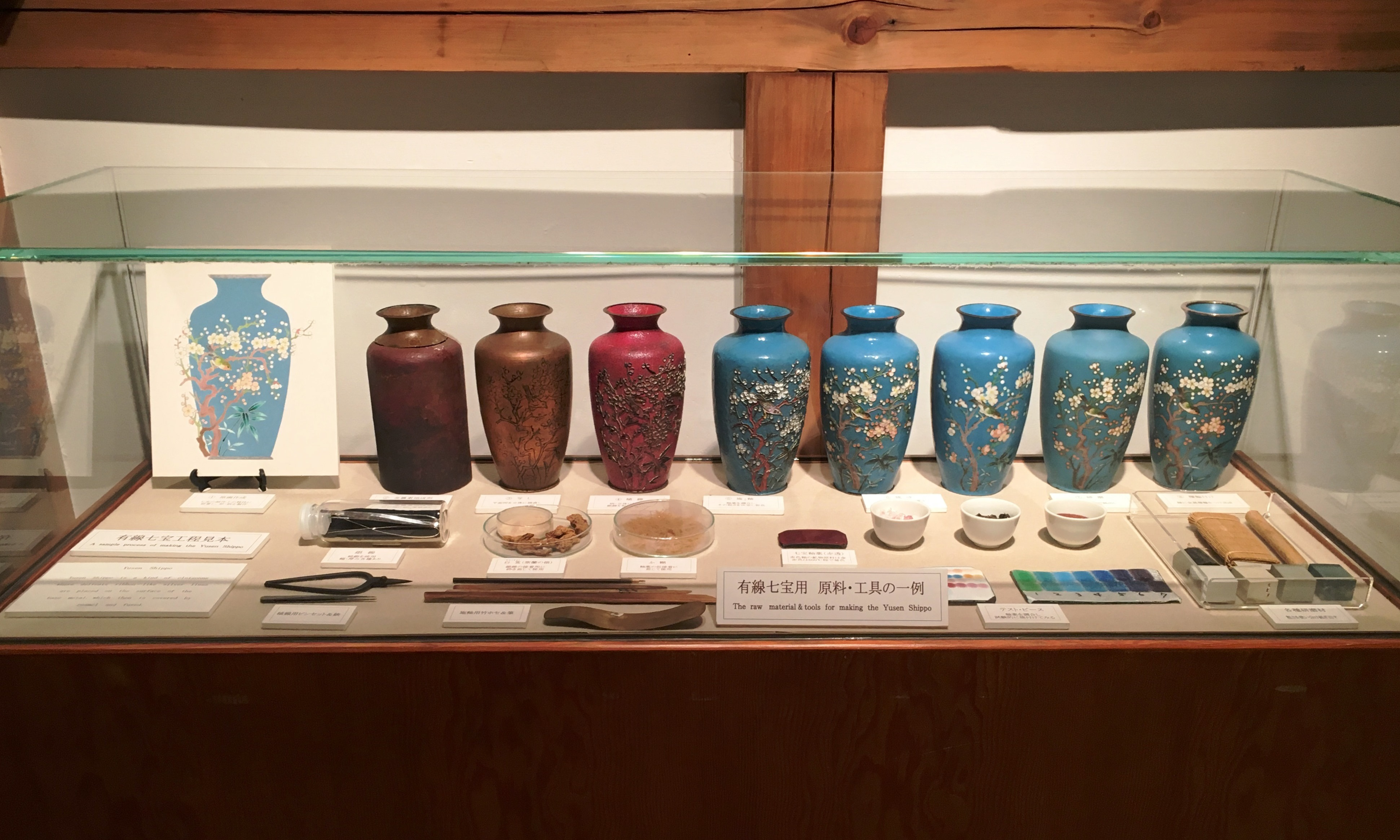 Depiction of a sample process, the raw material and tools for making a yusen shippo vase. Ando Cloisonne Museum, Nagoya.